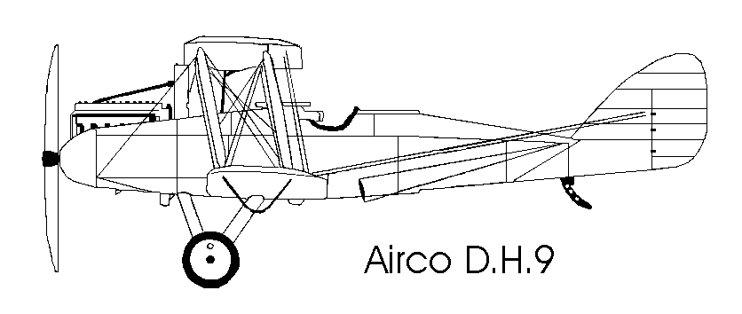 Airco D.H.9 - plane Drawing left side